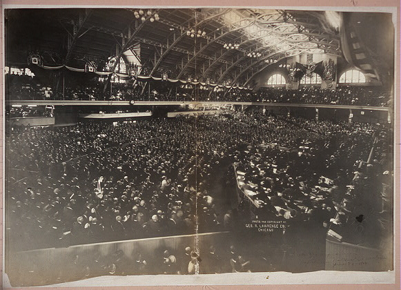 Summary TITLE: Root's opening speech, Republican National Convention, June 21, 1904 CALL NUMBER: LOT 5787 no. 31 (OSF) [P&P] REPRODUCTION NUMBER: LC-USZ62-53425 (b&w film copy neg.) No known restrictions on publication. MEDIUM: 1 photographic print : gelatin silver ; 18 x 25.5 in. CREATED/PUBLISHED: 1904 June 21.